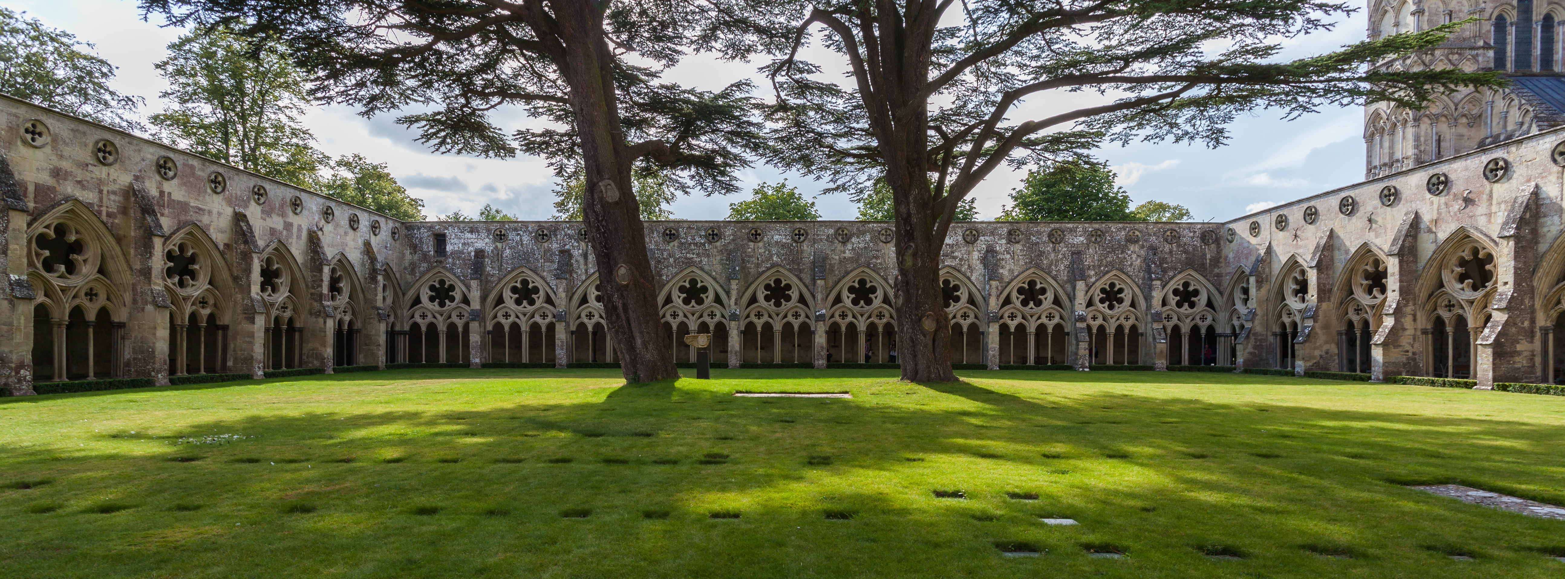 Salisbury Cathedral, Salisbury, England